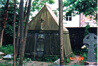 336×225 52 KB Richard Burton's tomb in Mortlake, London.